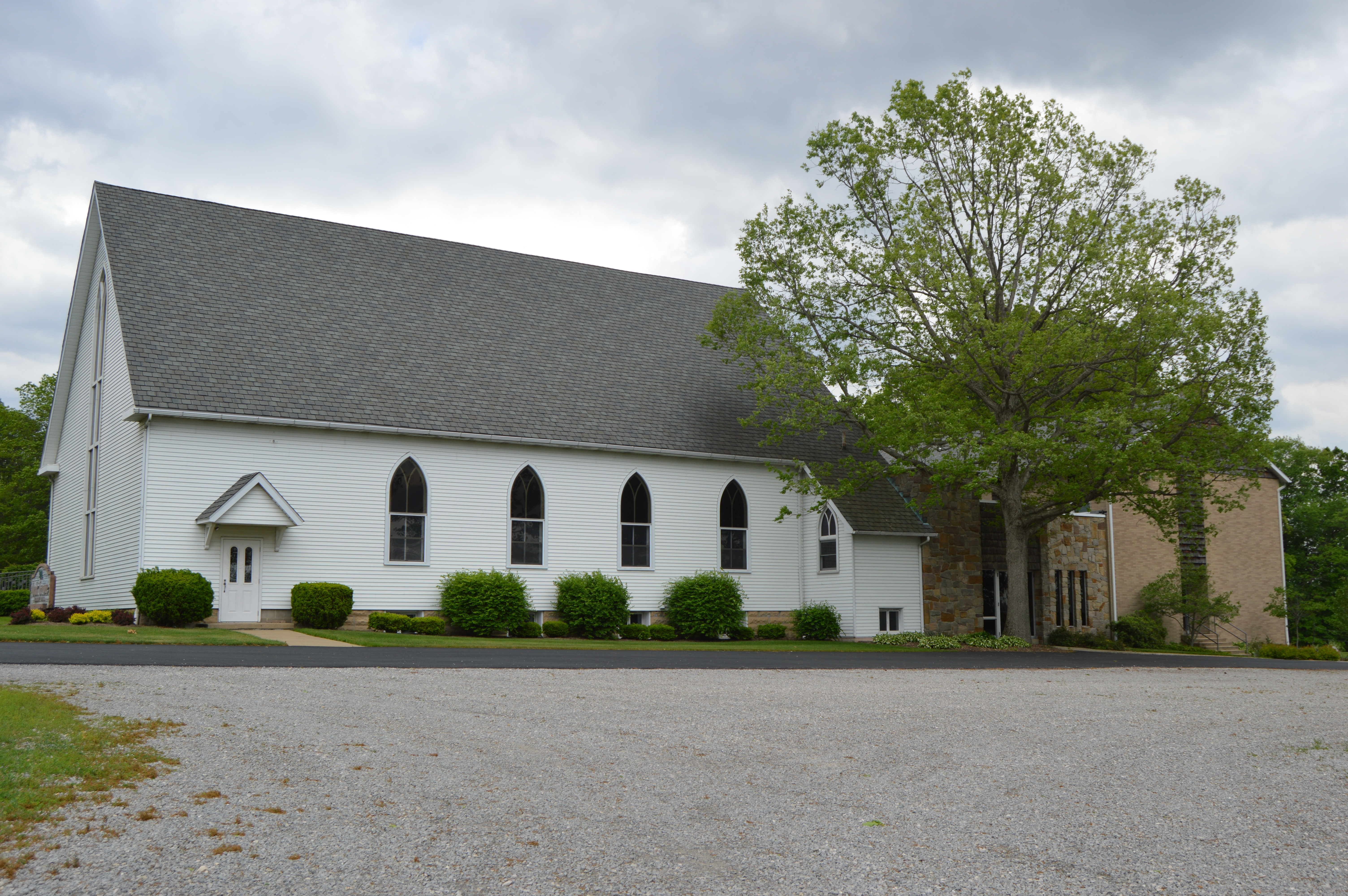 Western side and front of the Oak Grove Mennonite Church, located at 7843 Smucker Road east of Smithville in Green Township, Wayne County, Ohio, United States.